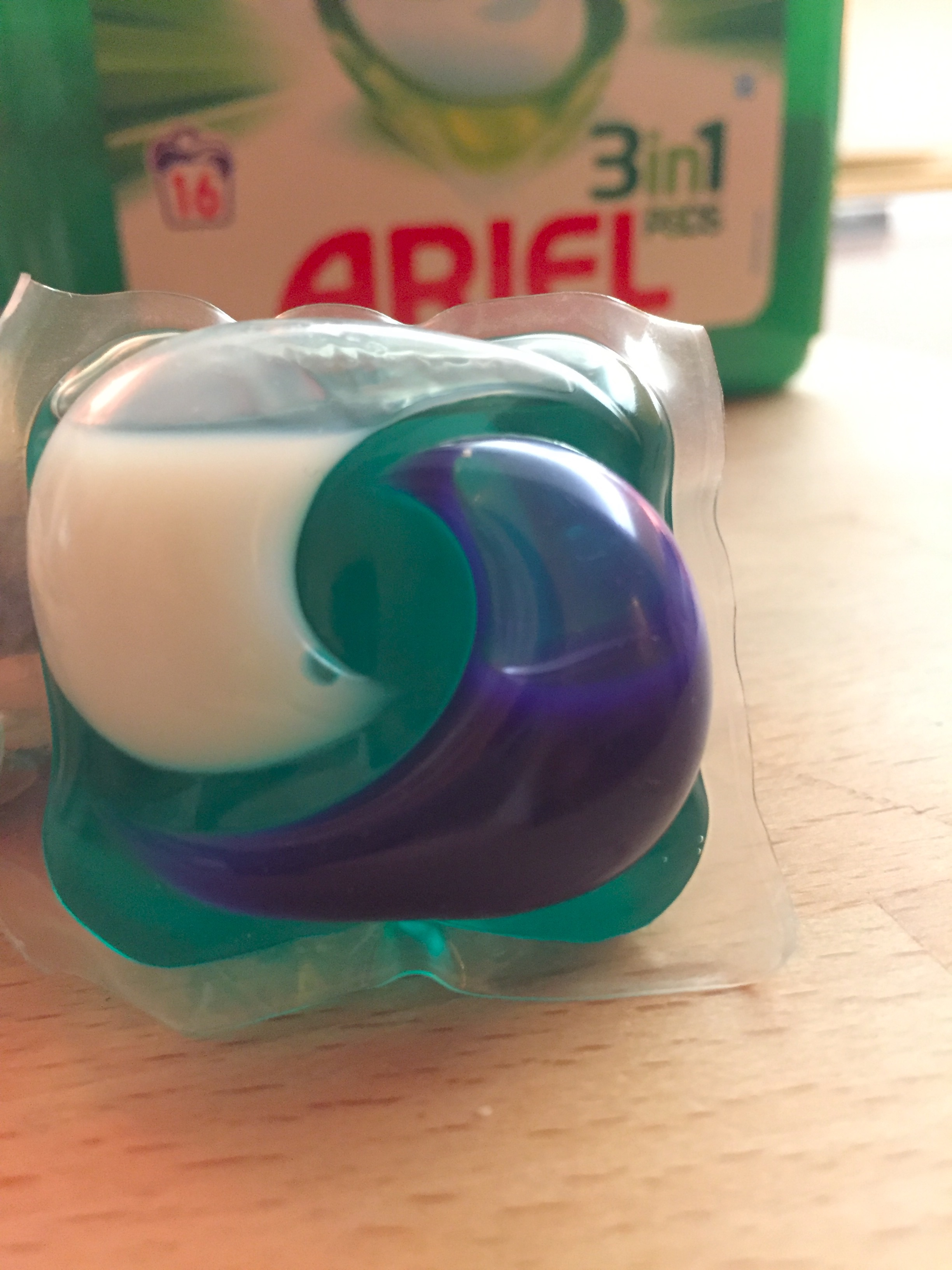 “Ariel 3in1 Pods”, a laundry detergent made by Procter & Gamble.